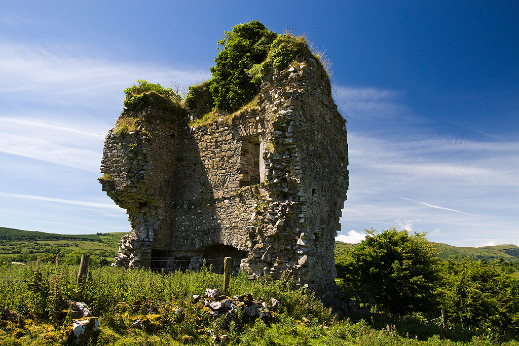 Image Copyright Mike Searle. This work is licensed under the Creative Commons Attribution-Share Alike 2.0 Generic Licence. Added to Geograph. Link to original